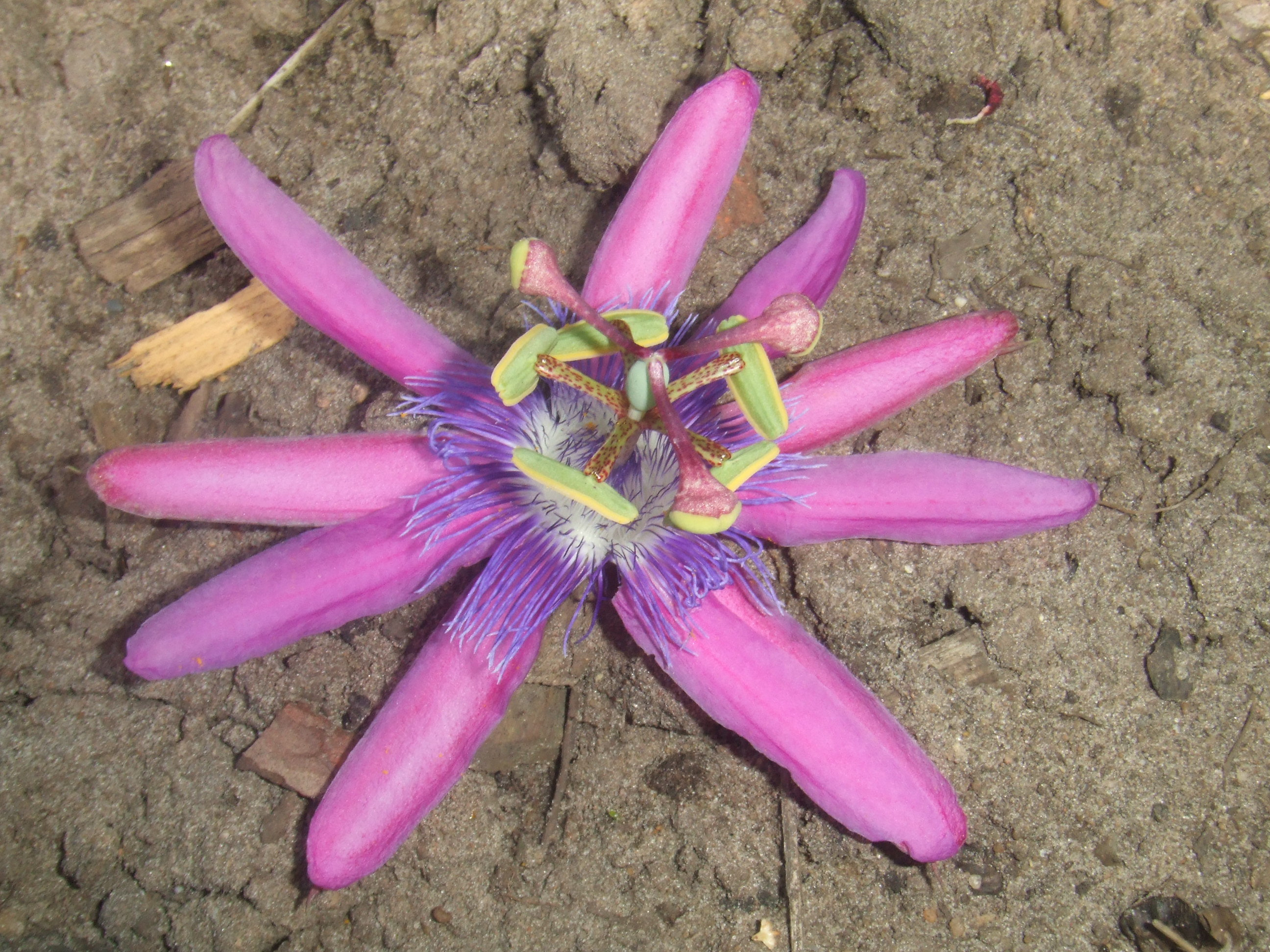 Passiflora loefgrenii, picture taken at the Passiflorahoeve in Harskamp, The Netherlands